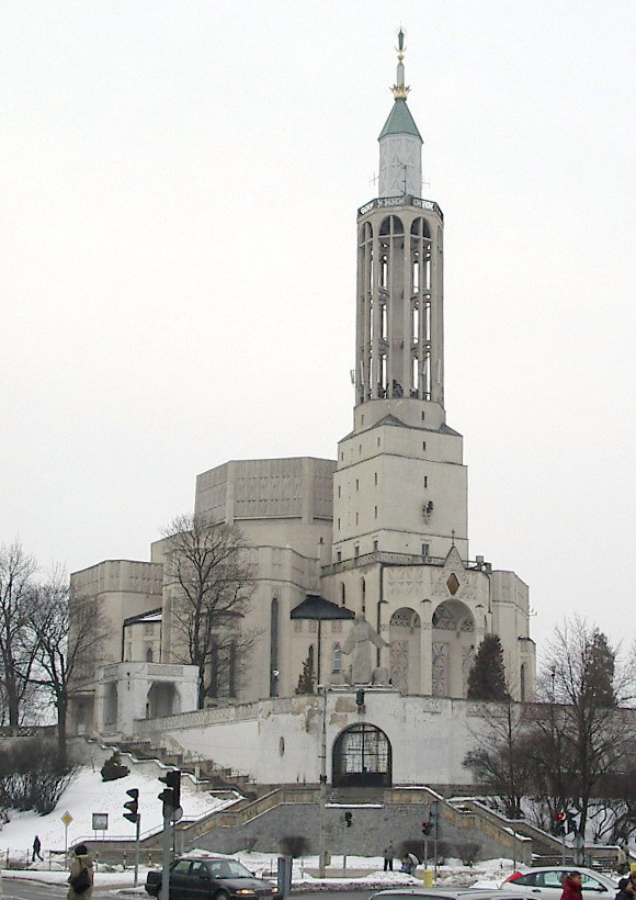 Białystok. Church facades of the St. Roch